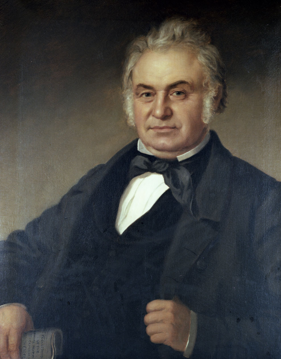 John Motley Morehead, 1841 - 1845 From the General Negative Collection, State Archives of North Carolina, Raleigh, NC.